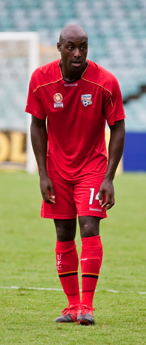 Lloyd Owusu playing for the Adelaide United Youth team against Sydney FC Youth.